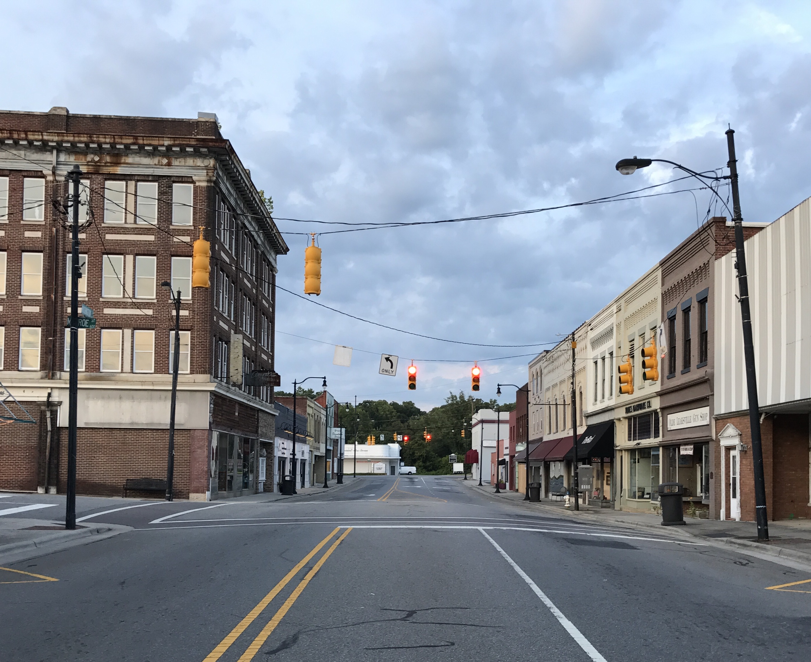 Leaksville Commercial District historical area, formerly the downtown of the defunct town of Leaksville, presently part of Eden